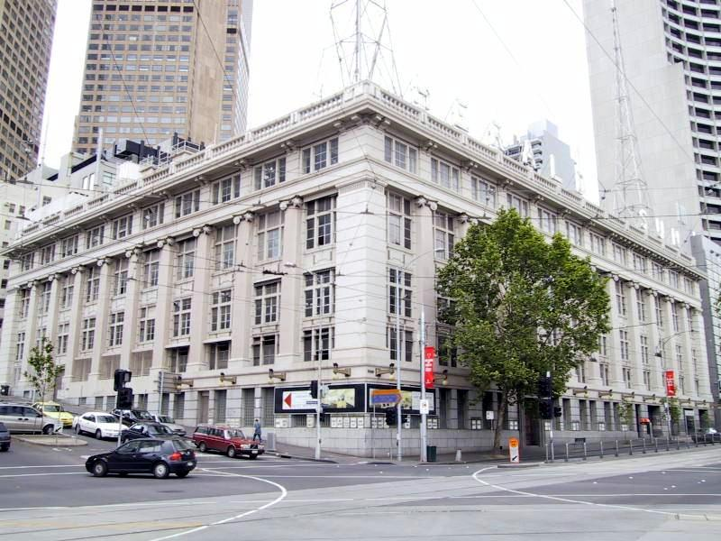 The old Herald and Weekly Times building on Flinders Street, Melbourne.Jpeg version of a PNG originally uploaded by PMelvilleAustin.